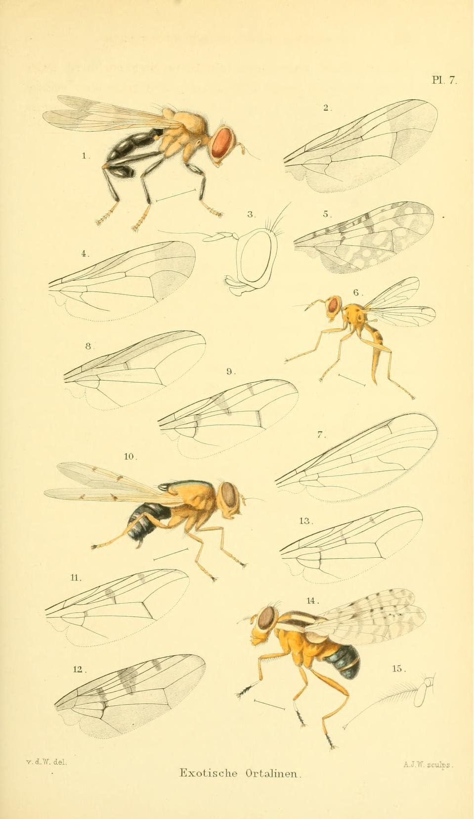 Wulp, Frederick Maurits van der, 1818-1899 Diptera. Washington :Smithsonian Institution,1898 PlateVII